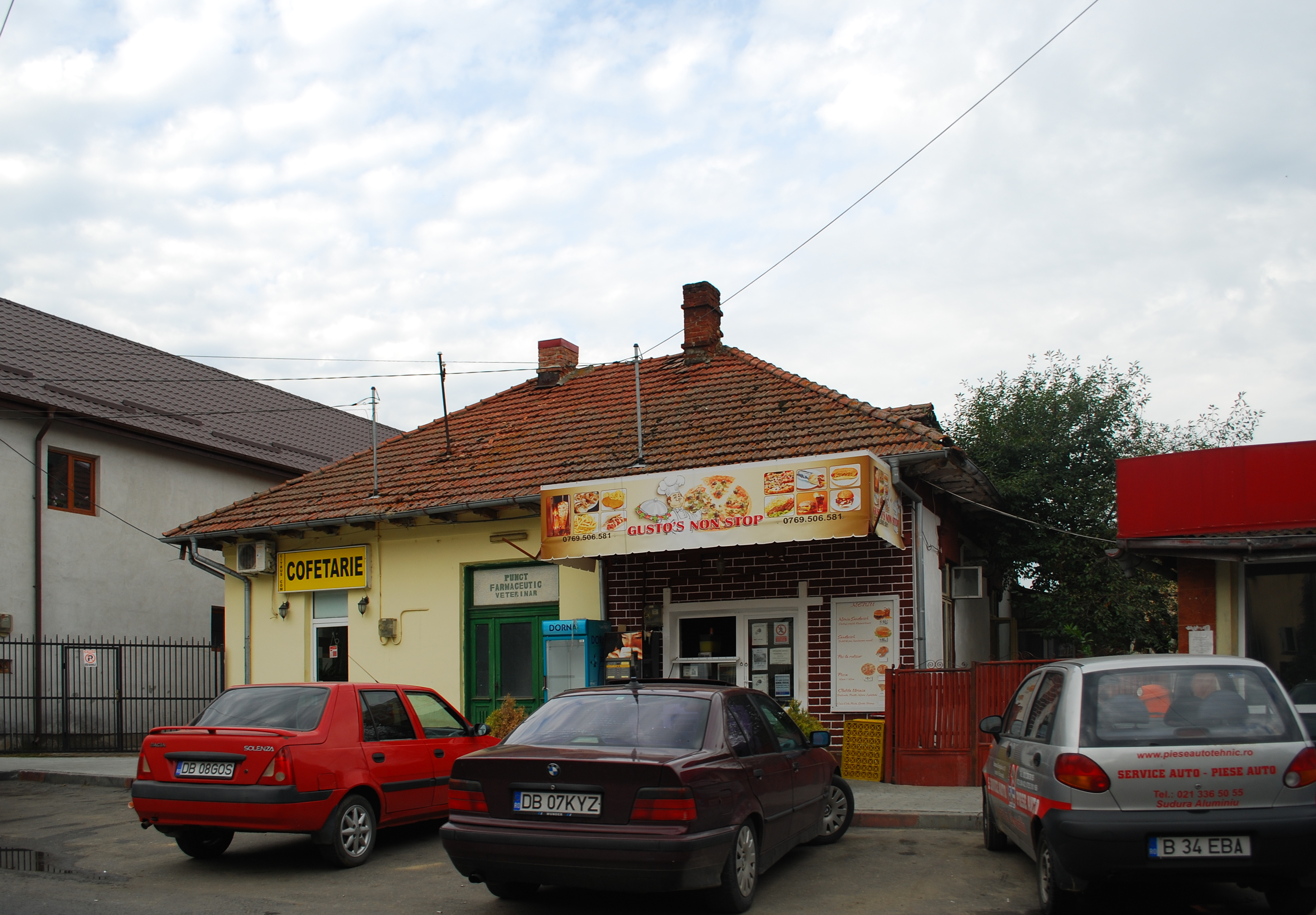 House with pharmacy in Găești, Dâmbovița County, RomaniaRomână: Casă cu farmacie în Găești, județul Dâmbovița, România